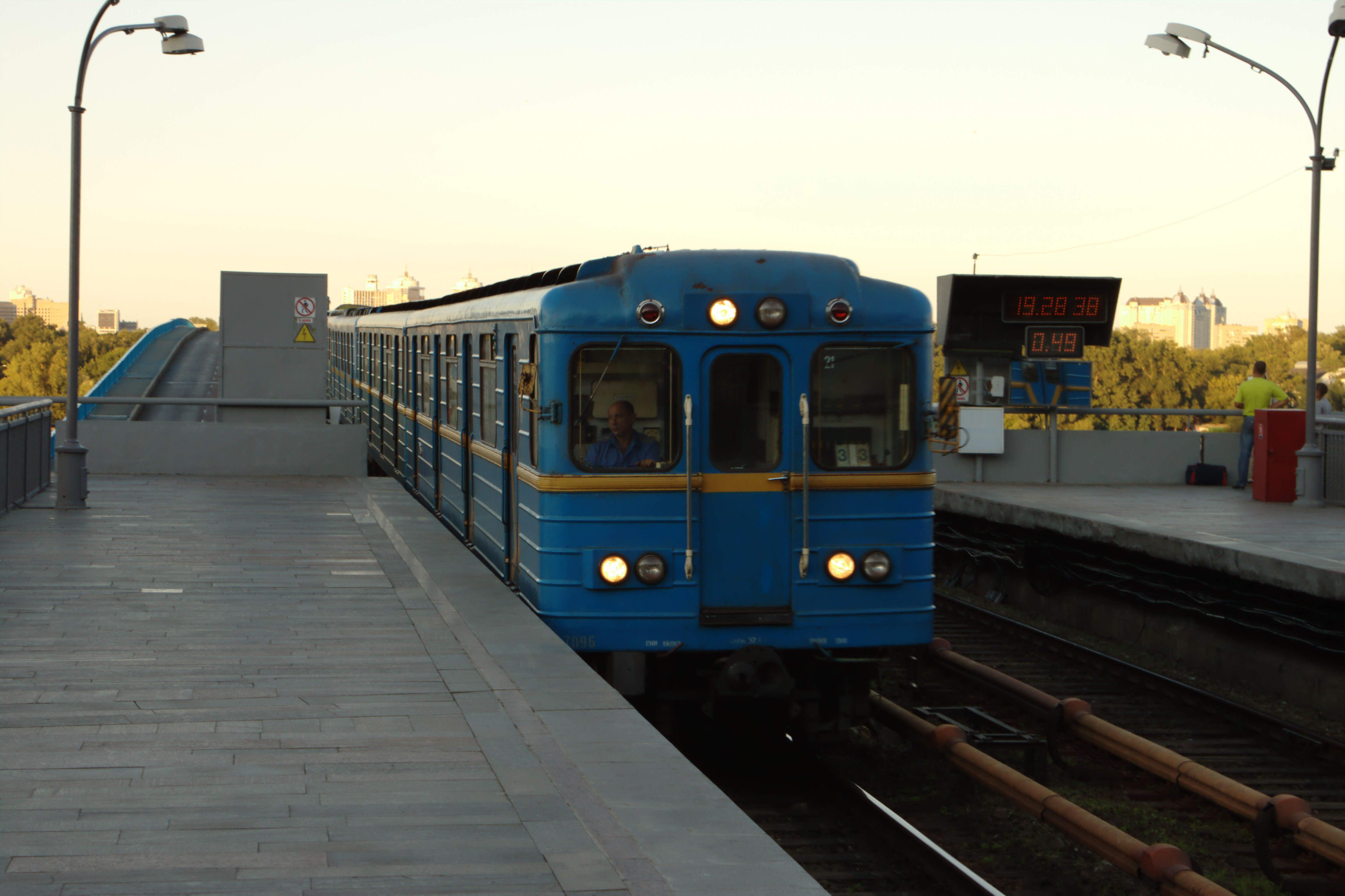 A train arriving to the Dnipro station, Kiev, Ukraine